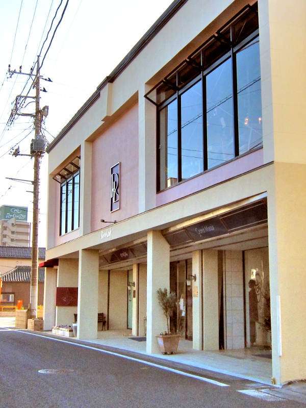 RocoLady Building